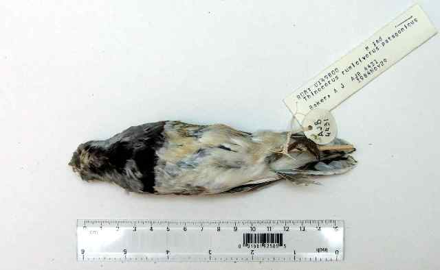 A study skin of a Least Seedsnipe, from the collections of the Royal Ontario Museum